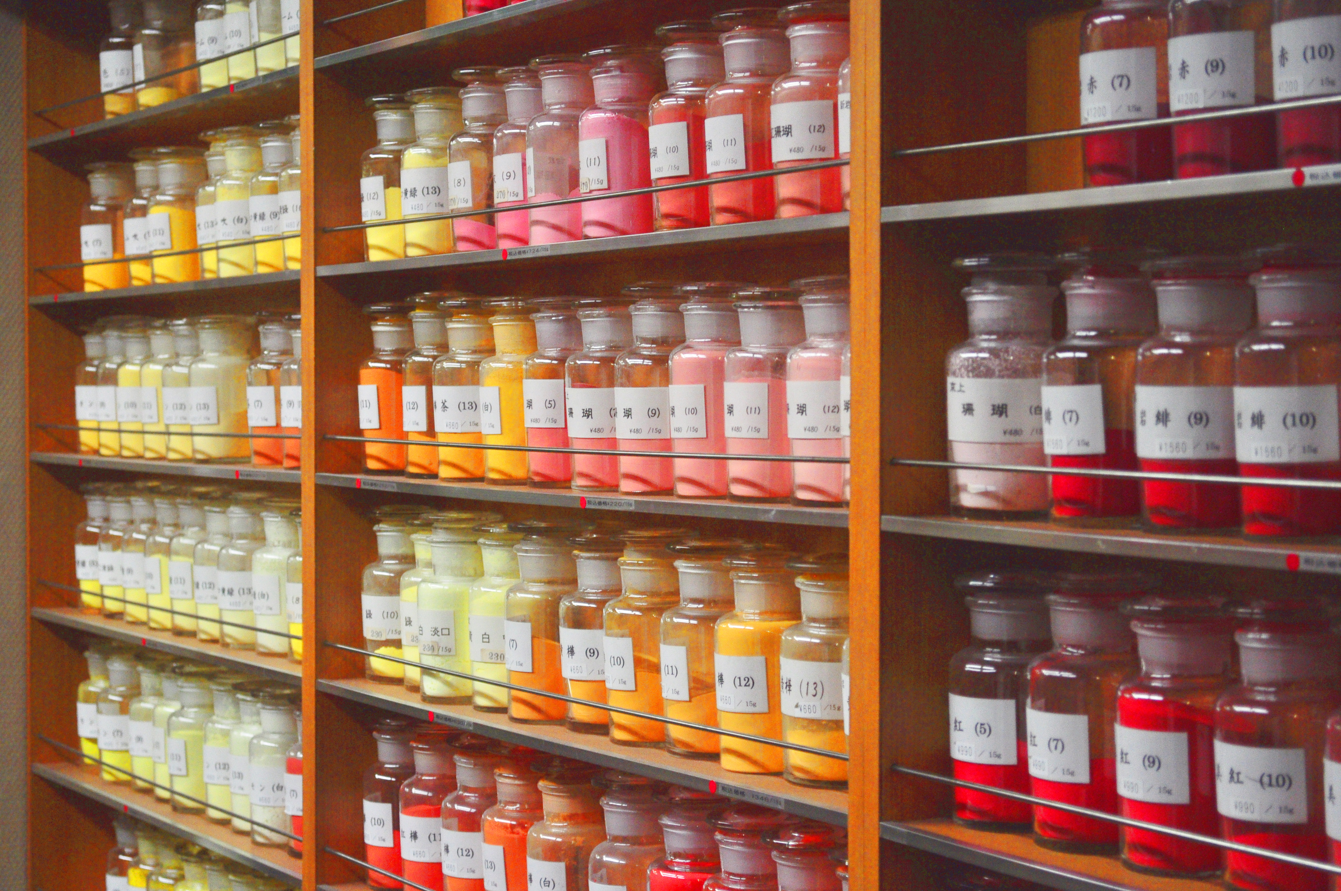 Yanaka, Tokyo, Japan.